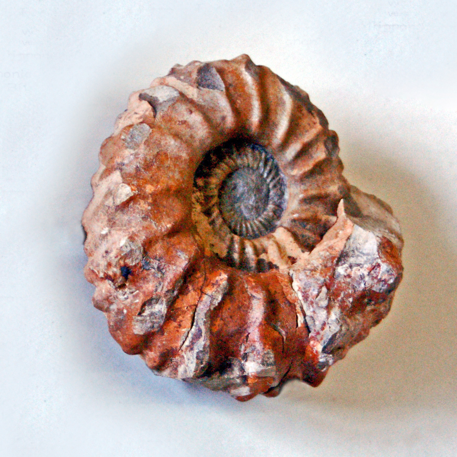 Collignoniceras woolgari, from Bílá Hora, Prague, Czech Republic, at the National Museum (Prague)